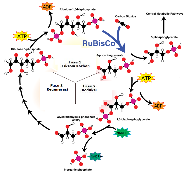 Bahasa Indonesai:Siklus calvin benson